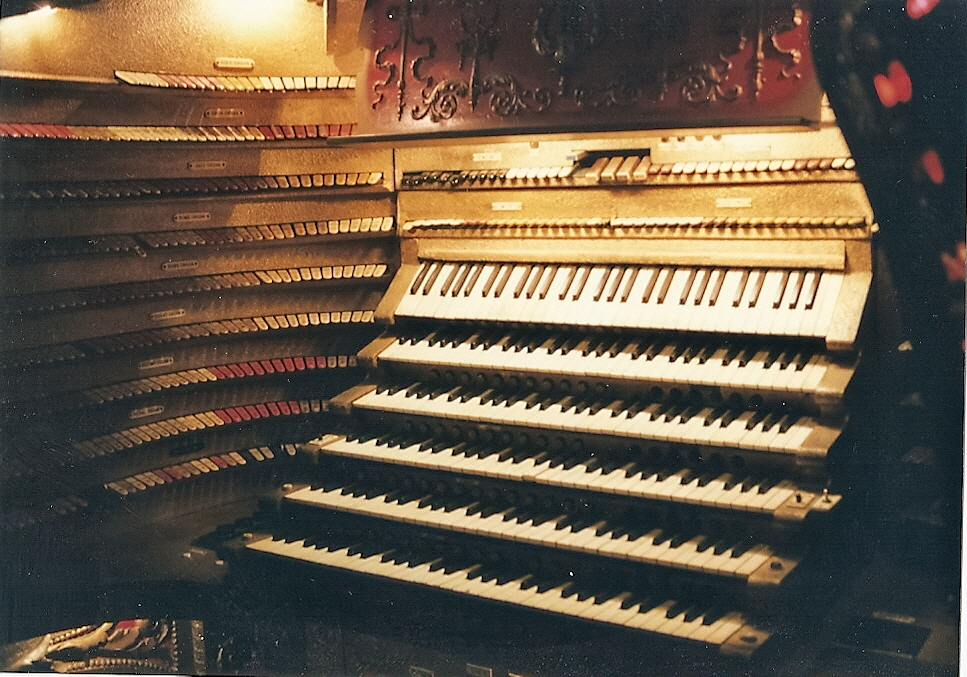 Photo of console of the Barton organ originally installed in the Chicago Stadium, Chicago, IL USA. Photo was taken after the organ was removed from the Stadium.